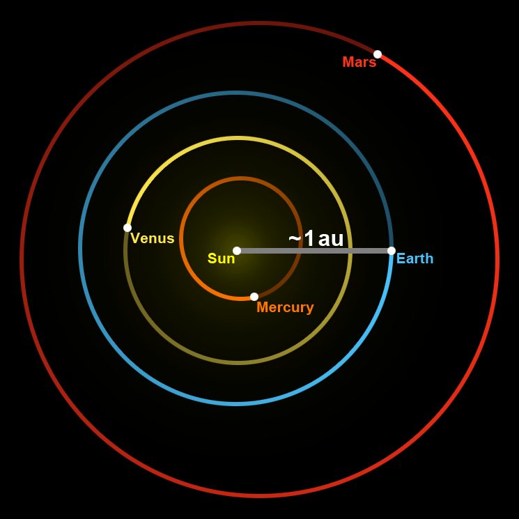 an astronomical unit